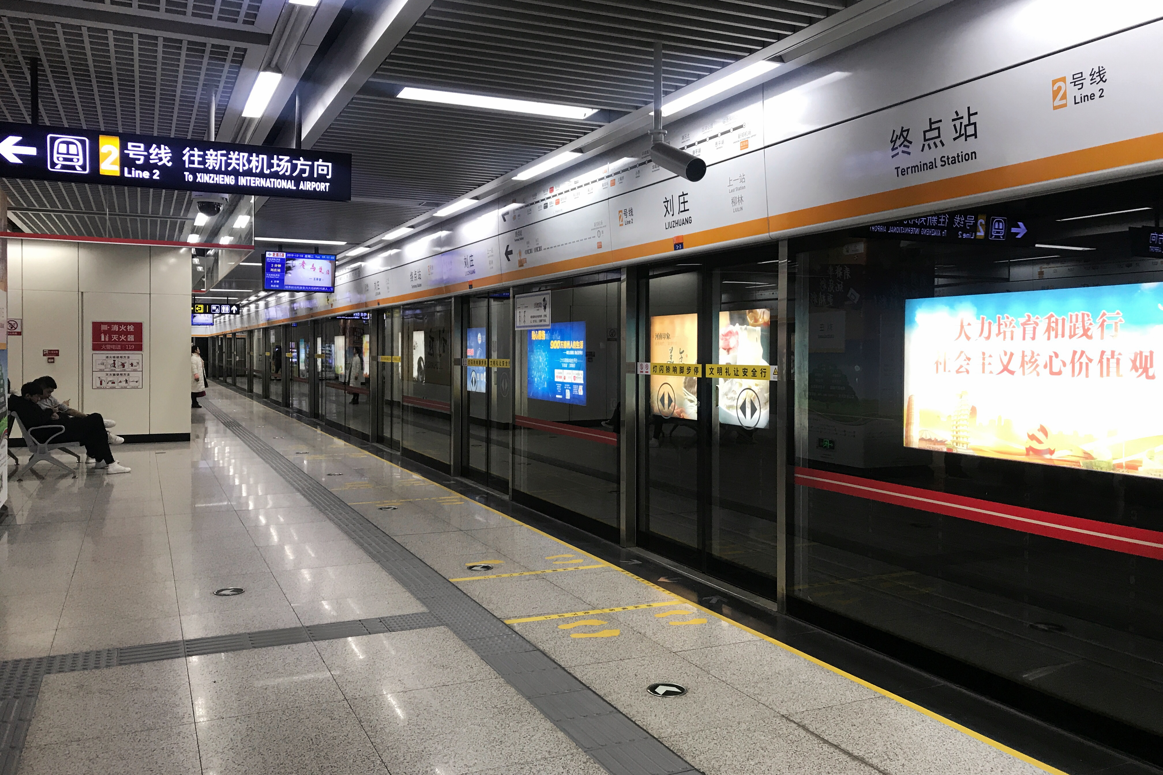 Liuzhuang will no longer be the terminus after Line 2's extension to Jiahe at the end of 2019